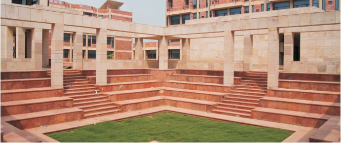 PARADsdss